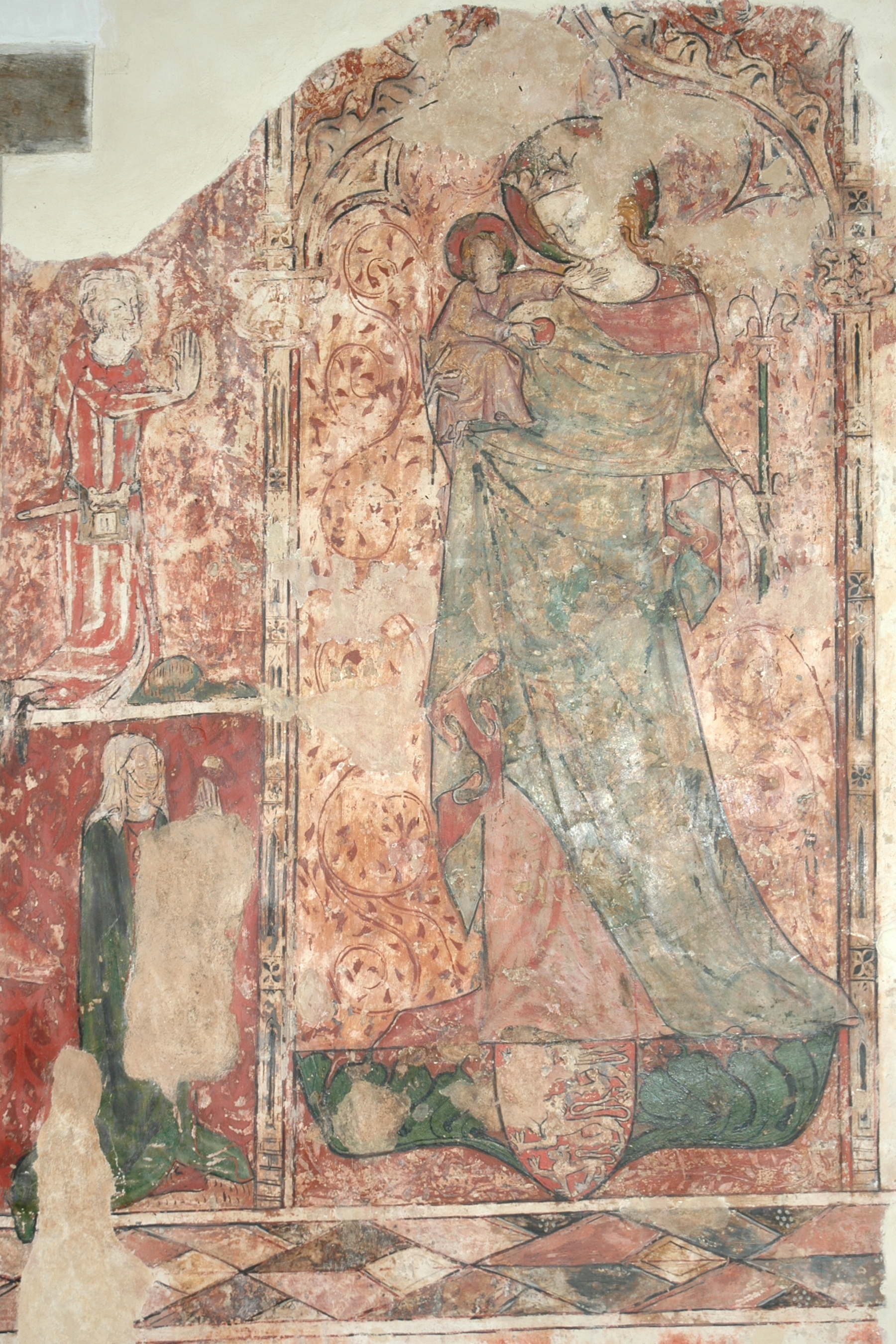 Fresco of Madonna and infant Jesus, north aisle of St Peter ad Vincula parish church, South Newington, Oxfordshire